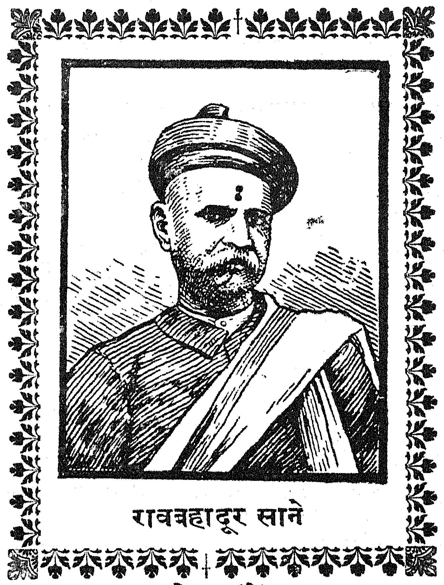 Kashinath Narayan Sane